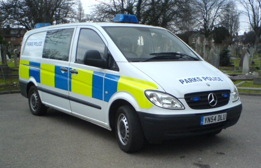 Wandsworth Park Police Van